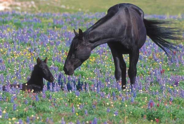 Feral mare and her foal. Image taken at the Pryor Mountain Wild Horse Range in Montana in the United States.